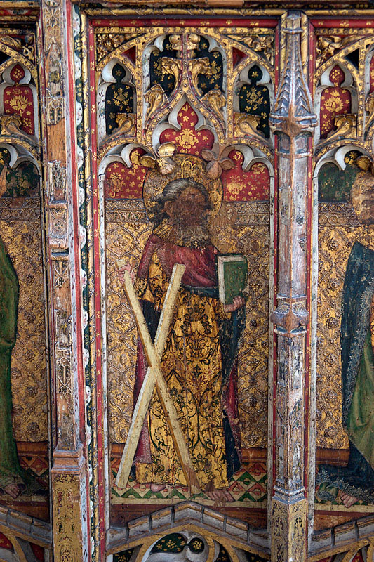 St Andrew. North side of the chancel screen, St. Edmund's Church, Southwold, Suffolk, U.K.